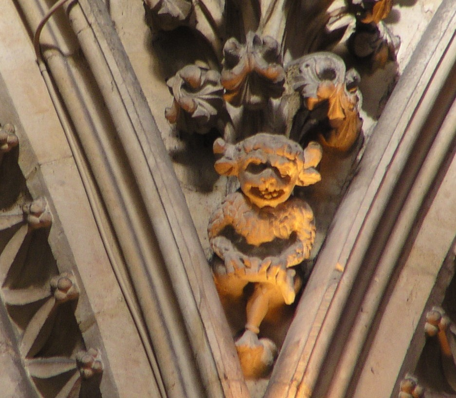 Lincoln Imp